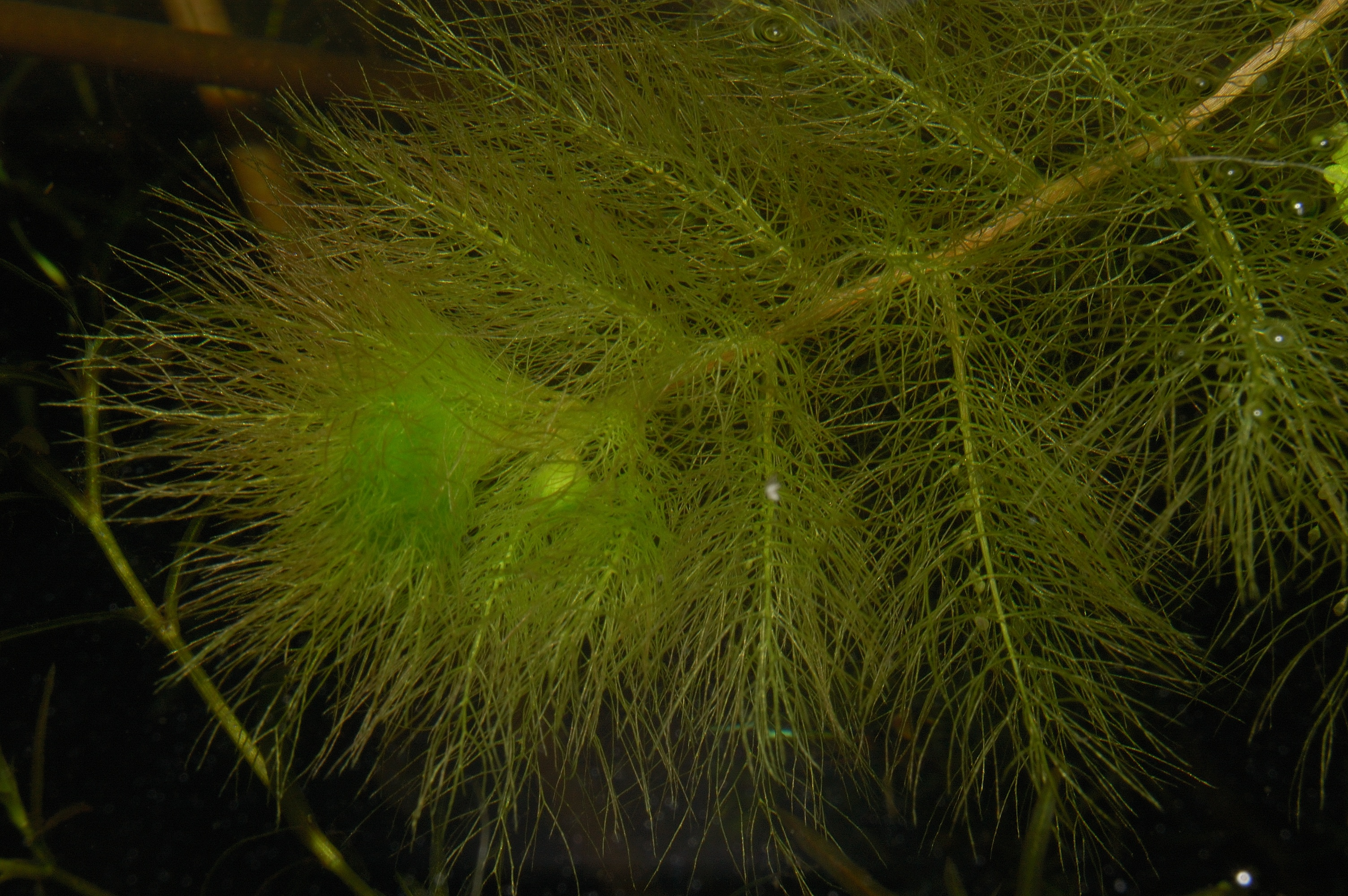 Utricularia aurea